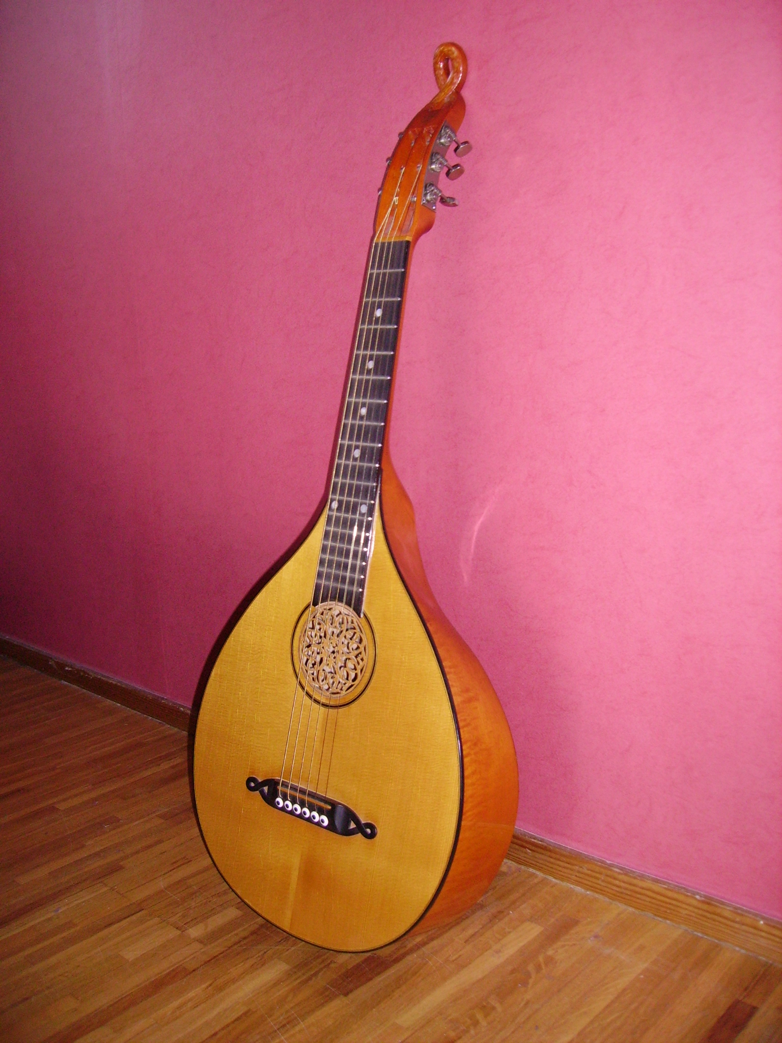 Gitarrluta made by Crafton gothenburg/SWEDEN